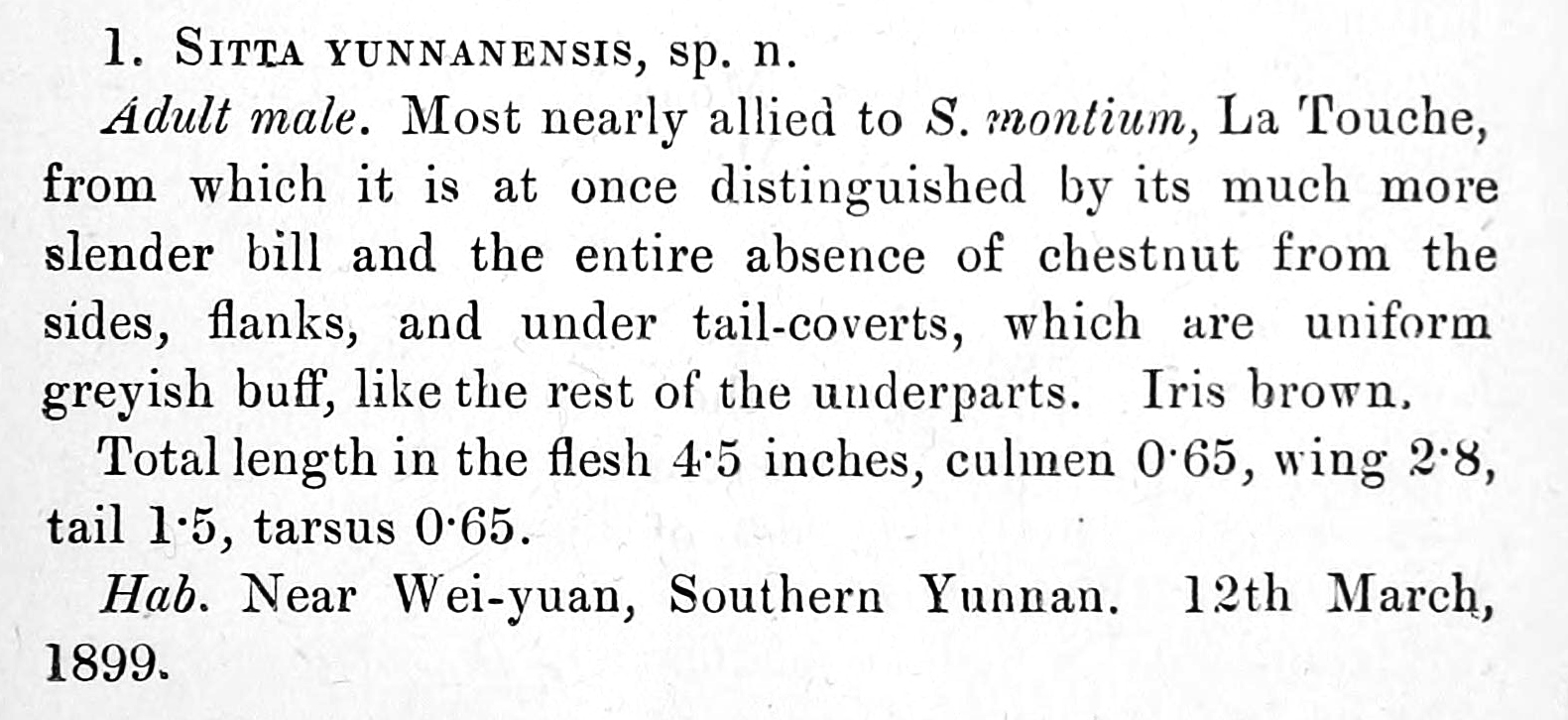 Protolog of Sitta yunnanensis description